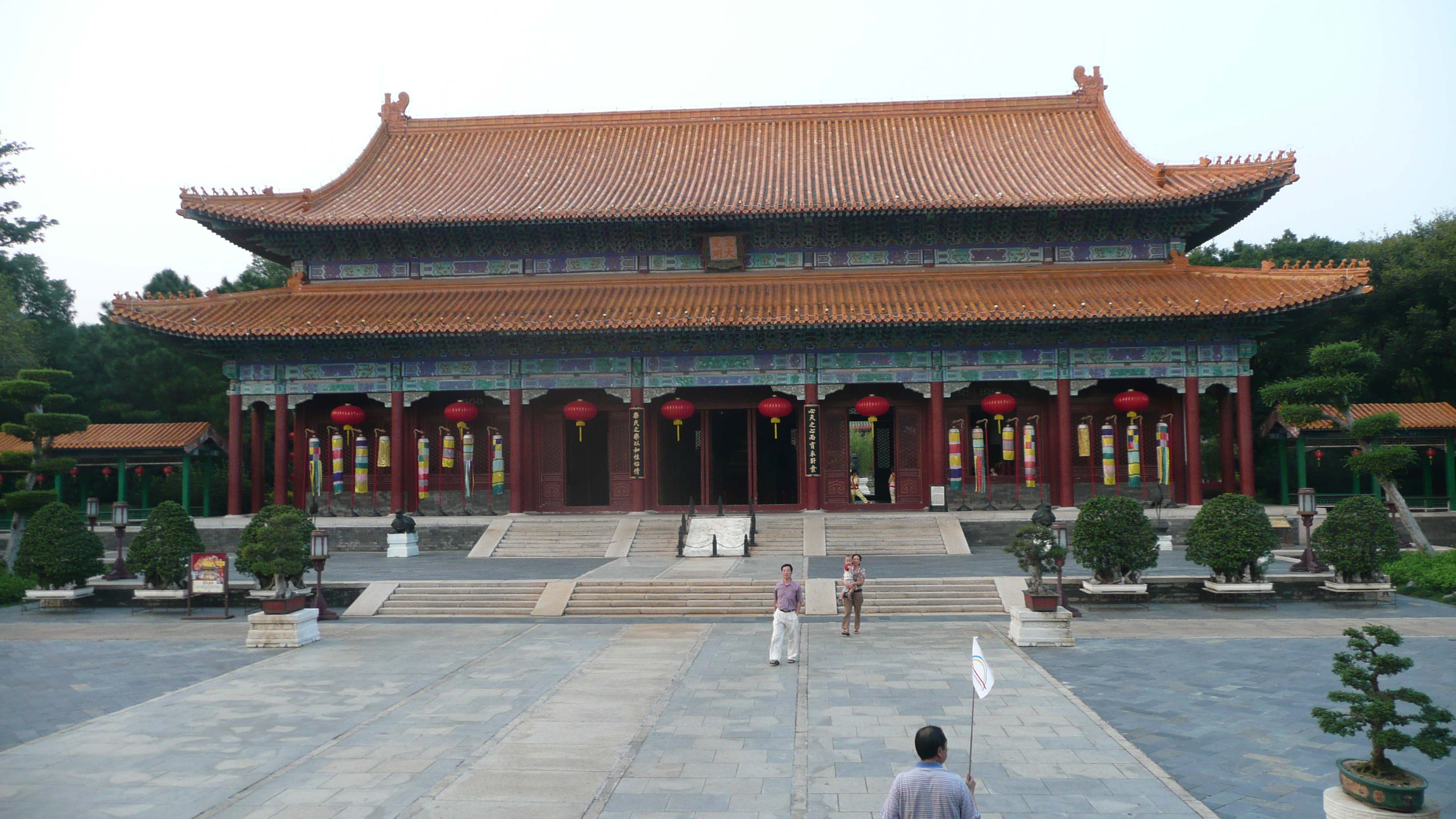 The New Yuan Ming Palace in Zhuhai is a partial reconstruction of the Old destroyed Summer Palace in Beijing.